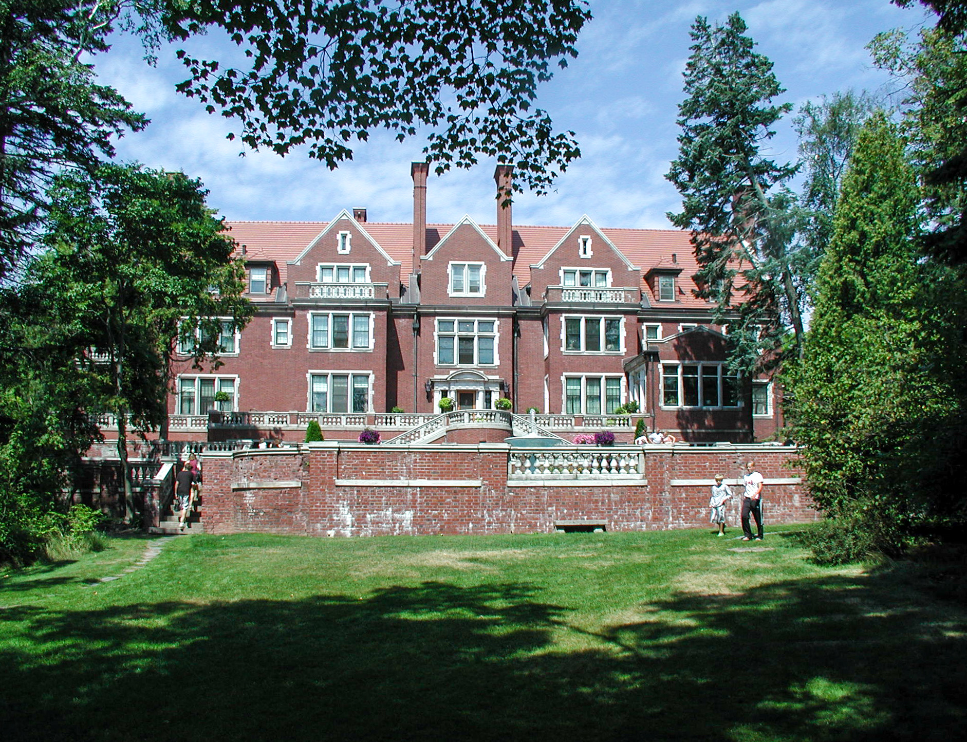 Glensheen Mansion Photo by Derek Heidelberg, 5th August 2006 Olympus C-3000